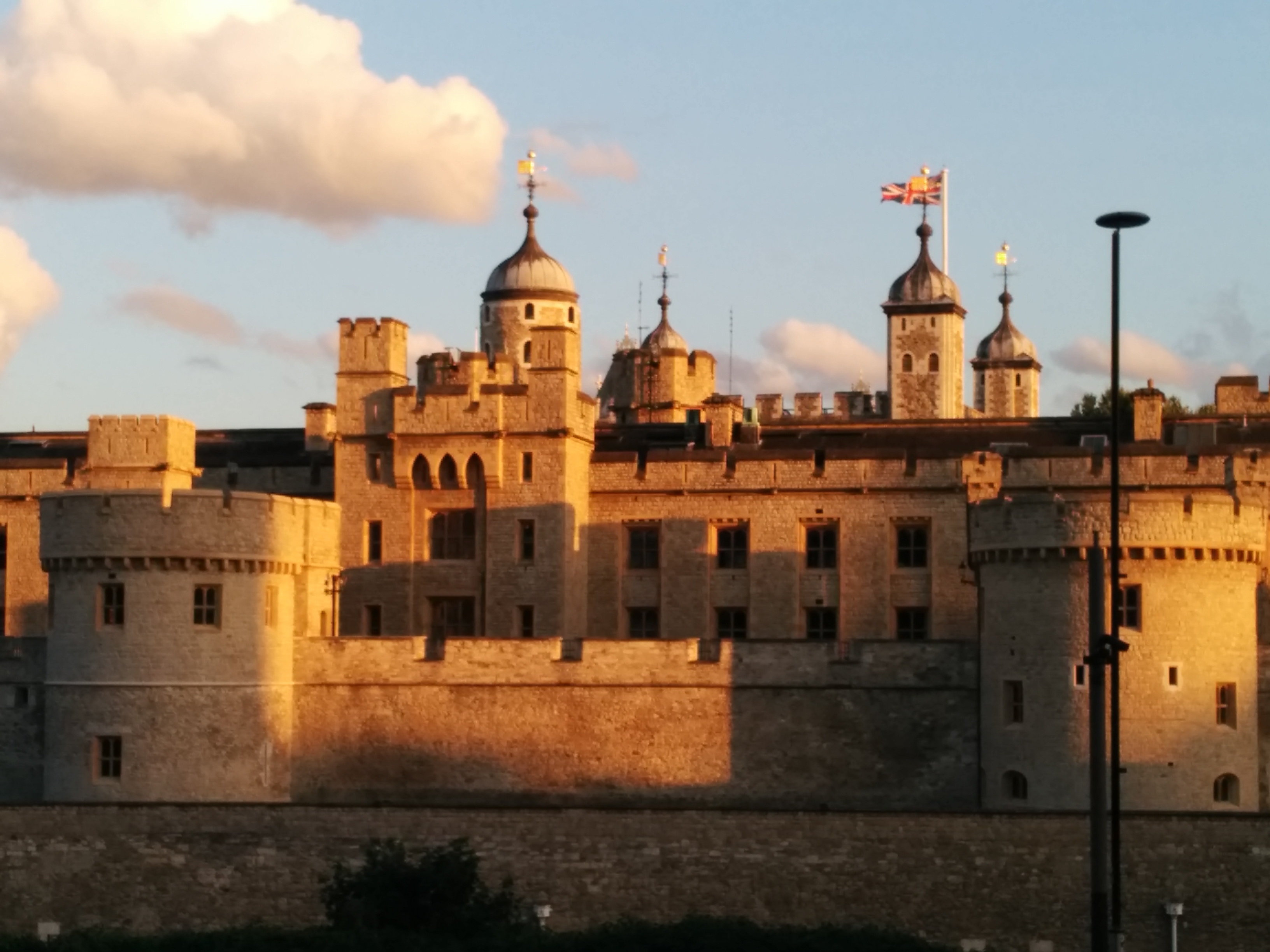 Tower of London in the setting sun.